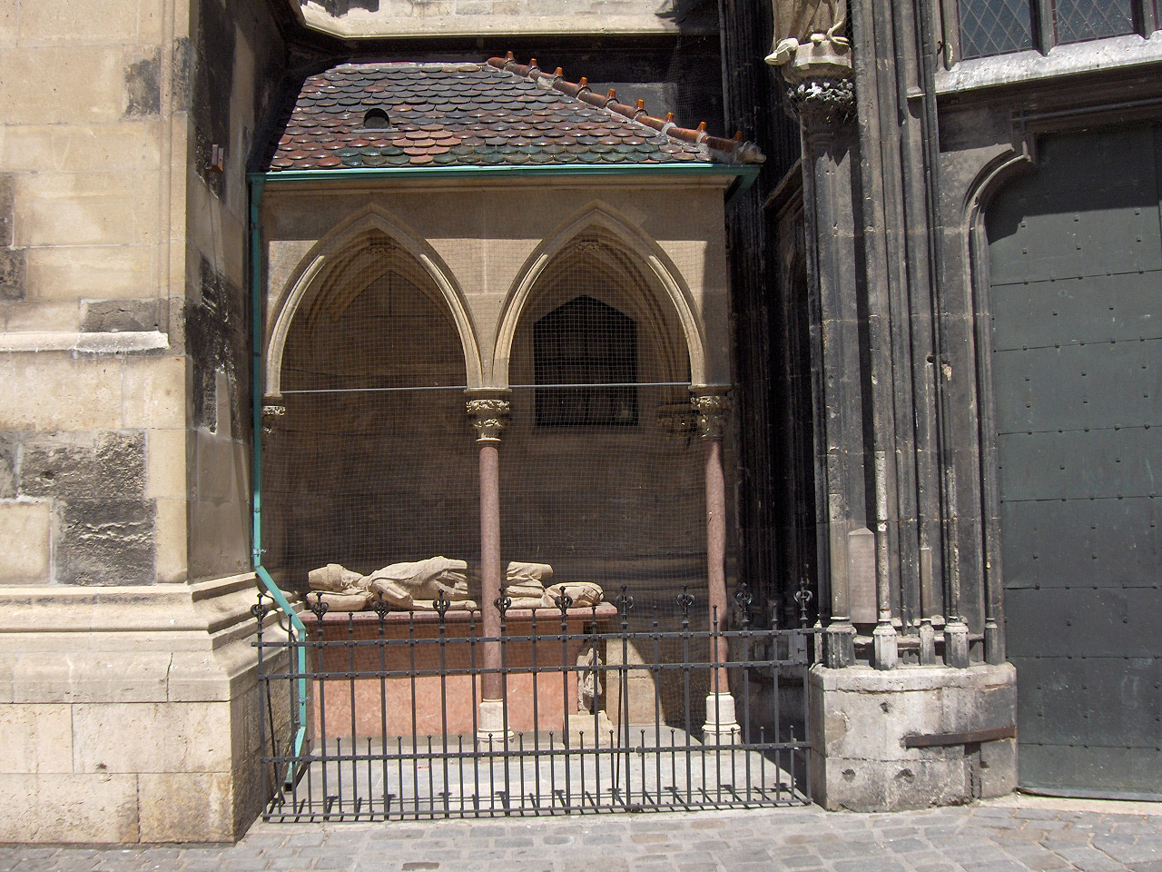 Neidardt Fuchs Funeral monument of at the Stephansdom in Vienna, Austria